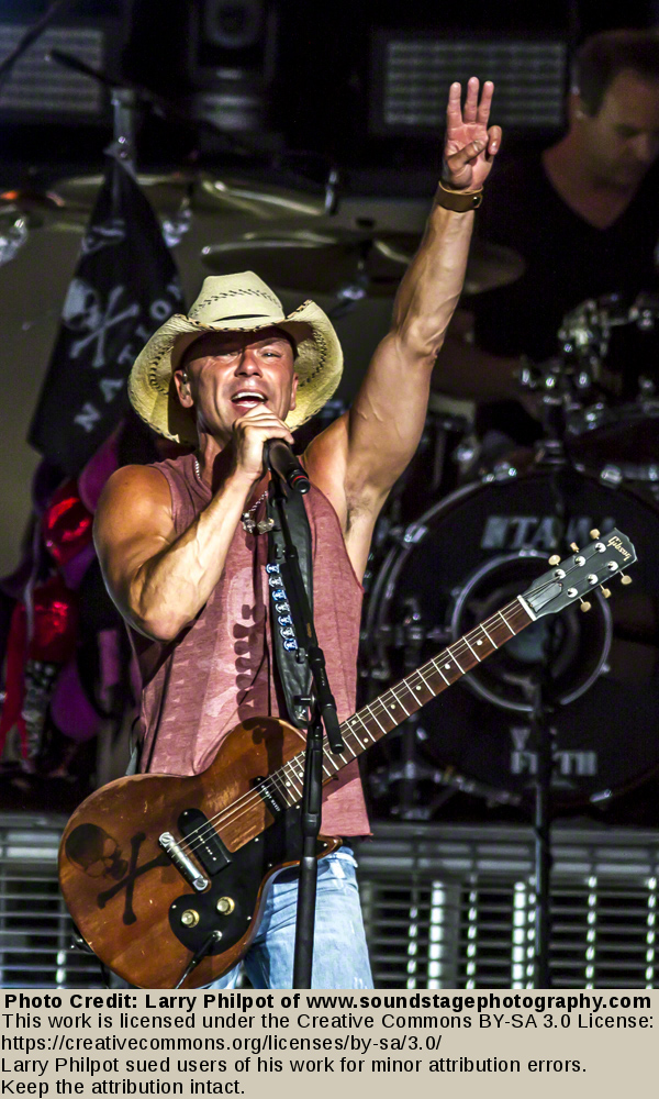 Country star Kenny Chesney performs in Indianapolis